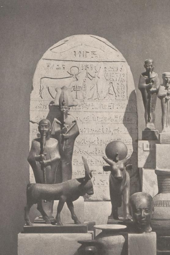 Some of Auguste Mariette's finding from the Lesser vaults of the Serapeum of Saqqara, mainly statuettes of the gods Apis and Ptah. In the background, one of the steles commemorating the burial of an Apis bull in Year 37 of Aakheperre Shoshenq V, pharaoh of the 22nd Dynasty. The stele is now in Cairo Museum.